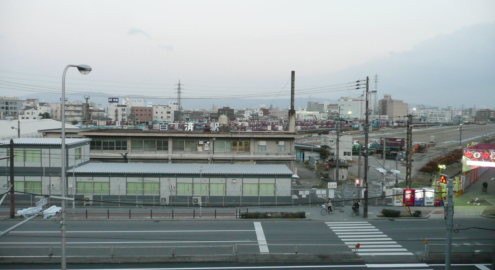 Kansai Main Line Kudara Station, Japan Freight Railway